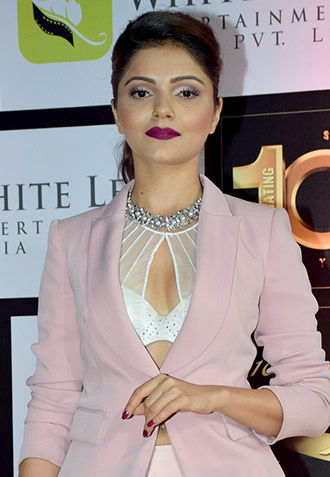 Rubina Dilaik grace the 10th Gold Awards 2017.